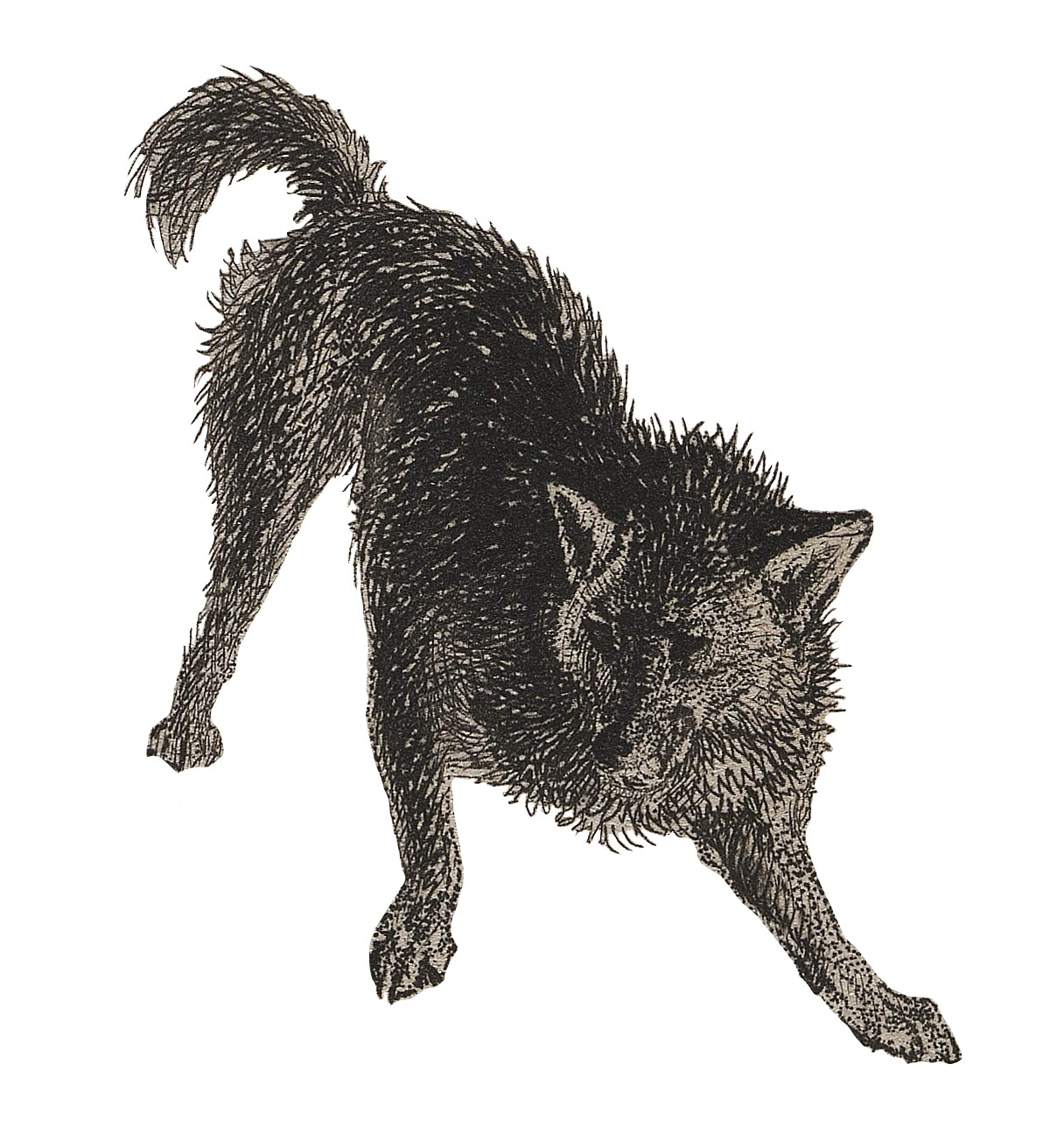 Illustration of a Fuegian dog from the Narrative of the surveying voyages of His Majesty's ships Adventure and Beagle, between the years 1826 and 1836, describing their examination of the Southern shores of South America, and the Beagle's circumnavigation of the globe. Rare Books